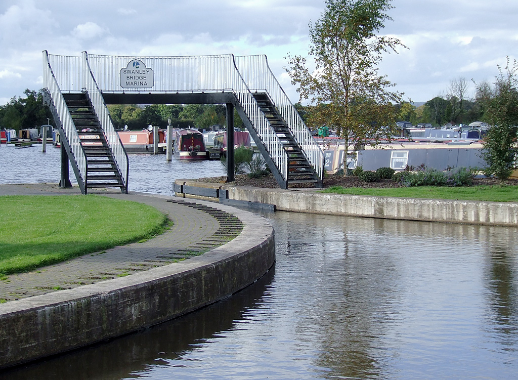 Entrance to Swanley Bridge Marina, Swanley, Burland, near Nantwich, Cheshire